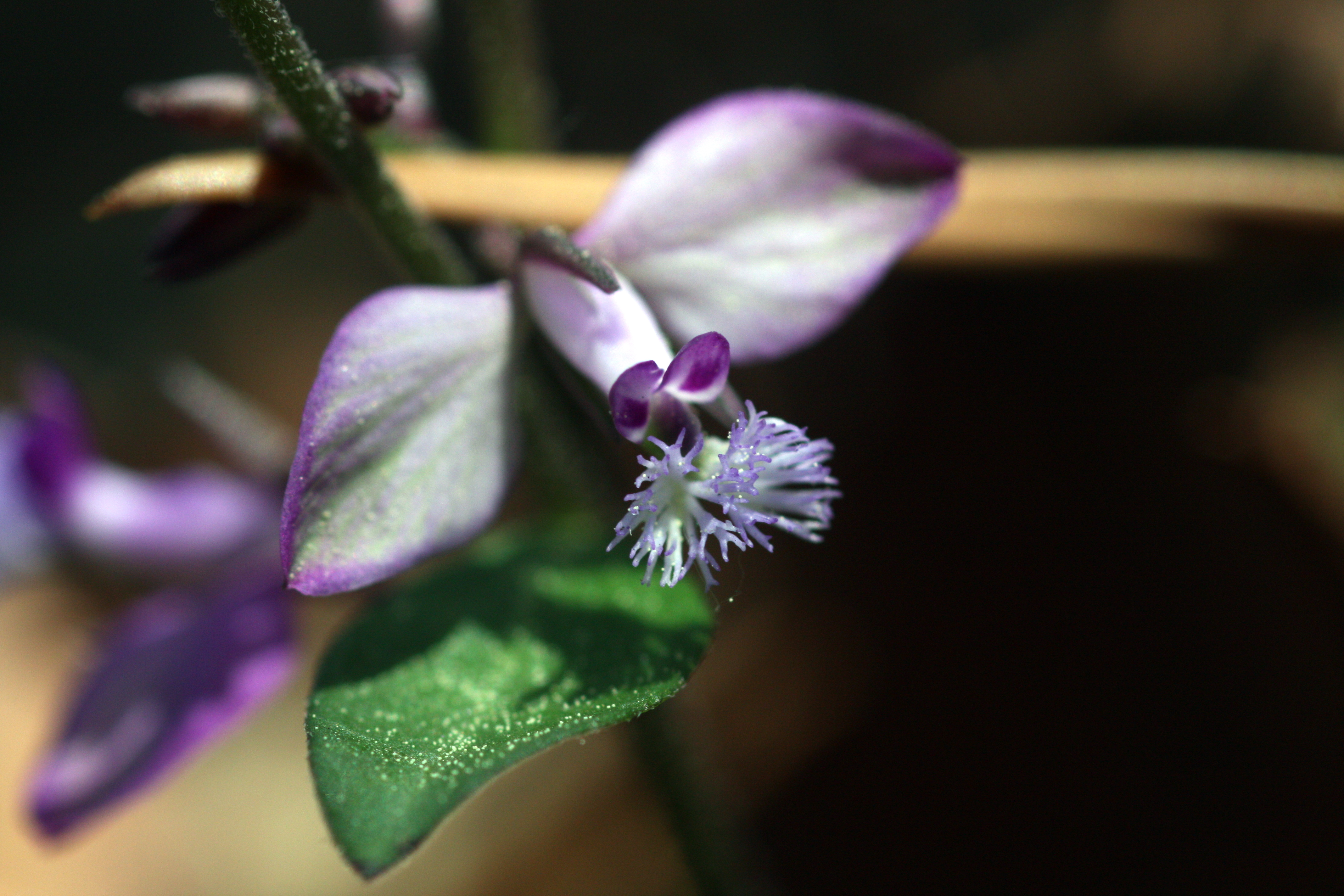 Polygala japonica